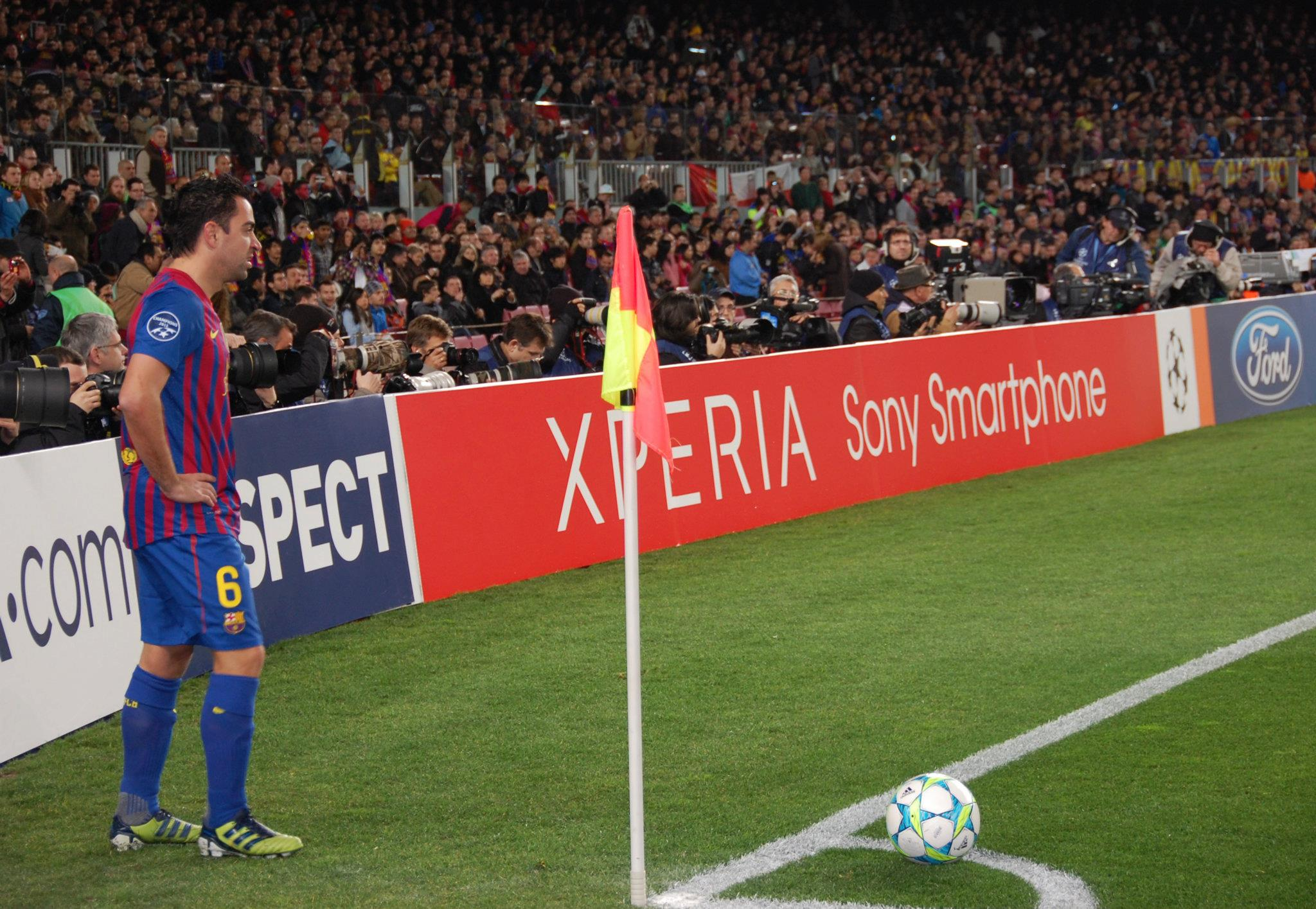 FC Barcelona - Bayer 04 Leverkusen, 1/8 Final UEFA Champions League, Season 2011/2012